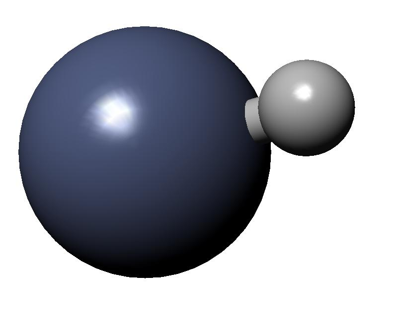 Chromium hydride molecule as symbolised by stick and ball model. Hydrogen is the small grey ball and chromium is the dark blue ball.